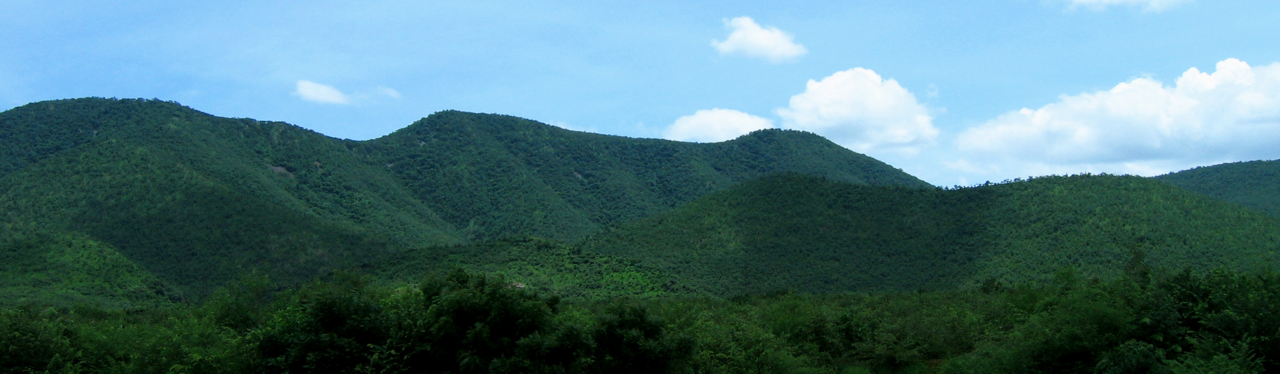 Andhra Pradesh - Landscapes from Andhra Pradesh, views from Indias South Central Railway